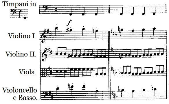 The coda of the 4th movement of Beethoven's Symphony No. 8 in F, where the key in the strings section is "hammered down" a semitone by the timpani.